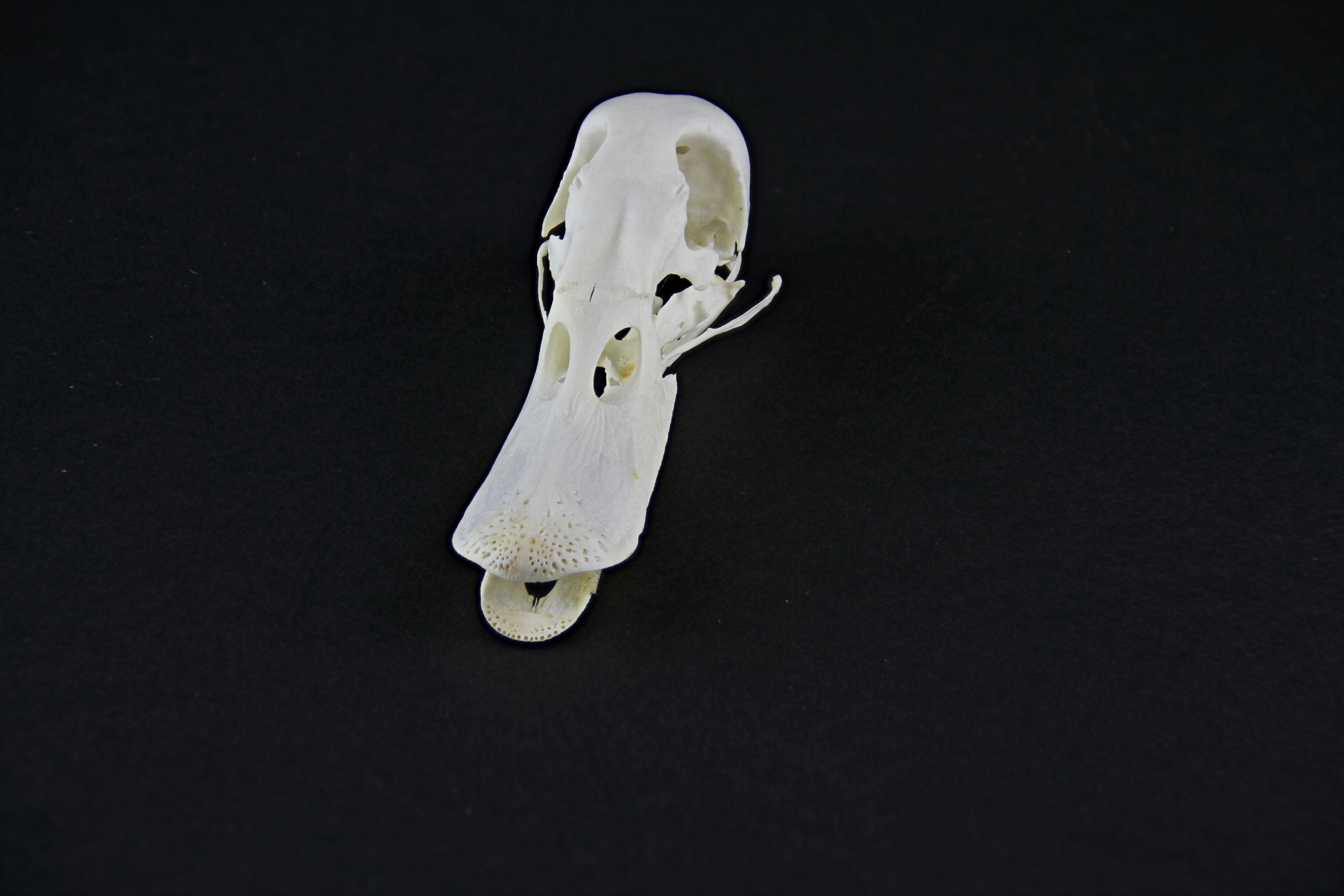 Specimen of the anatidae family.